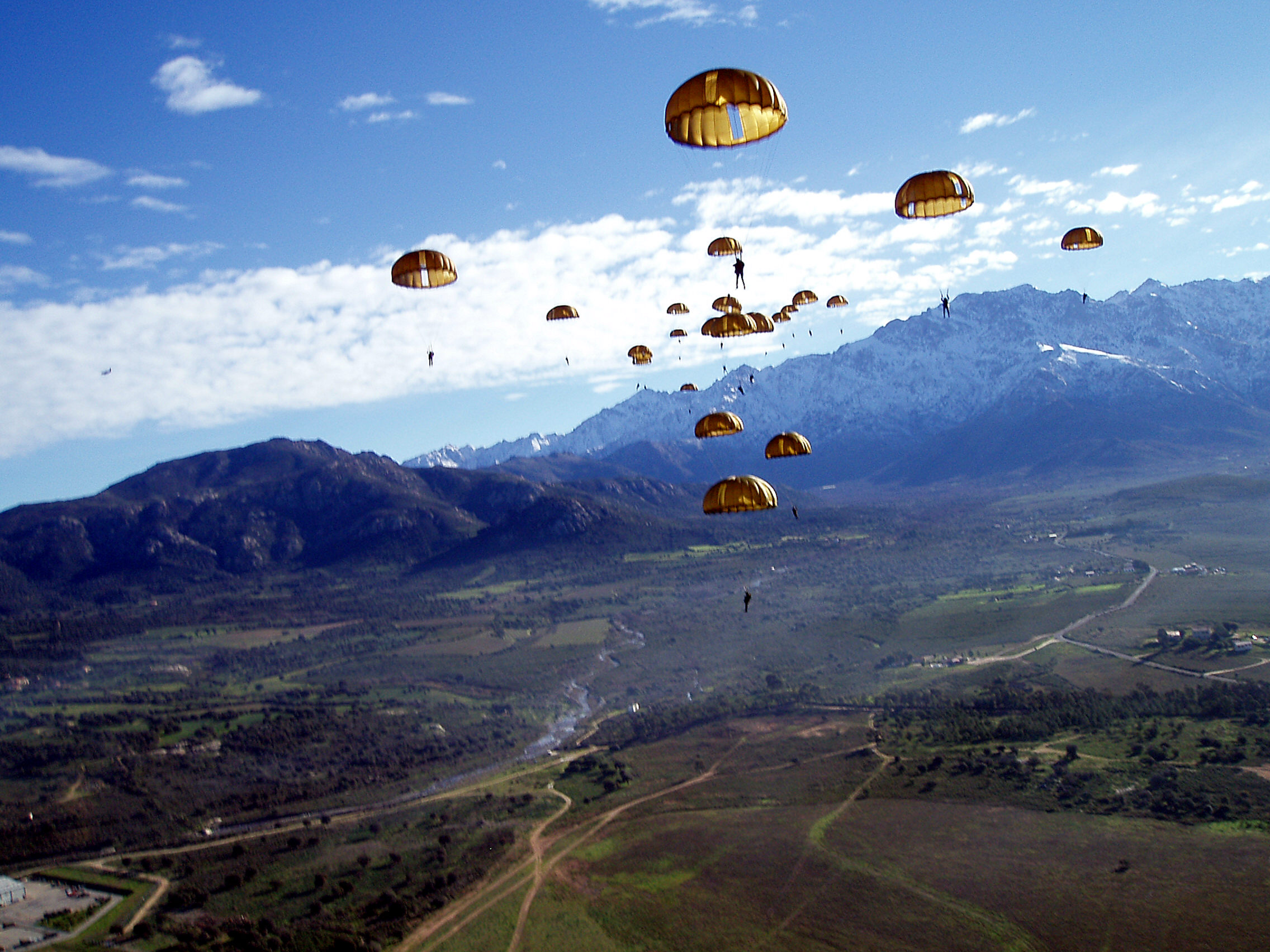 Paratroopers from the 2ème REP (2nd Foreign Parachute Regiment of the French Foreign Legion) executing a jump over a drop zone on the island of Corsica near their home base at the Citidel in the city of Calvi, Haute Corse.